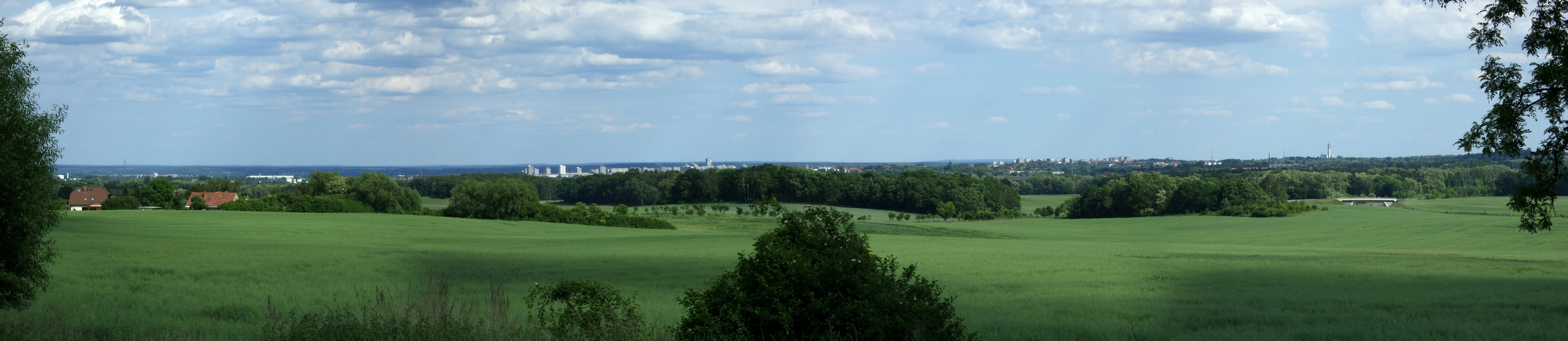 Panoramic view of Frankfurt (Oder) from hill "Großer Kapberg" in Booßen, Germany.